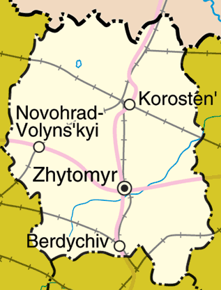 Map of Zhytomyr Oblast, Ukraine Adapted from